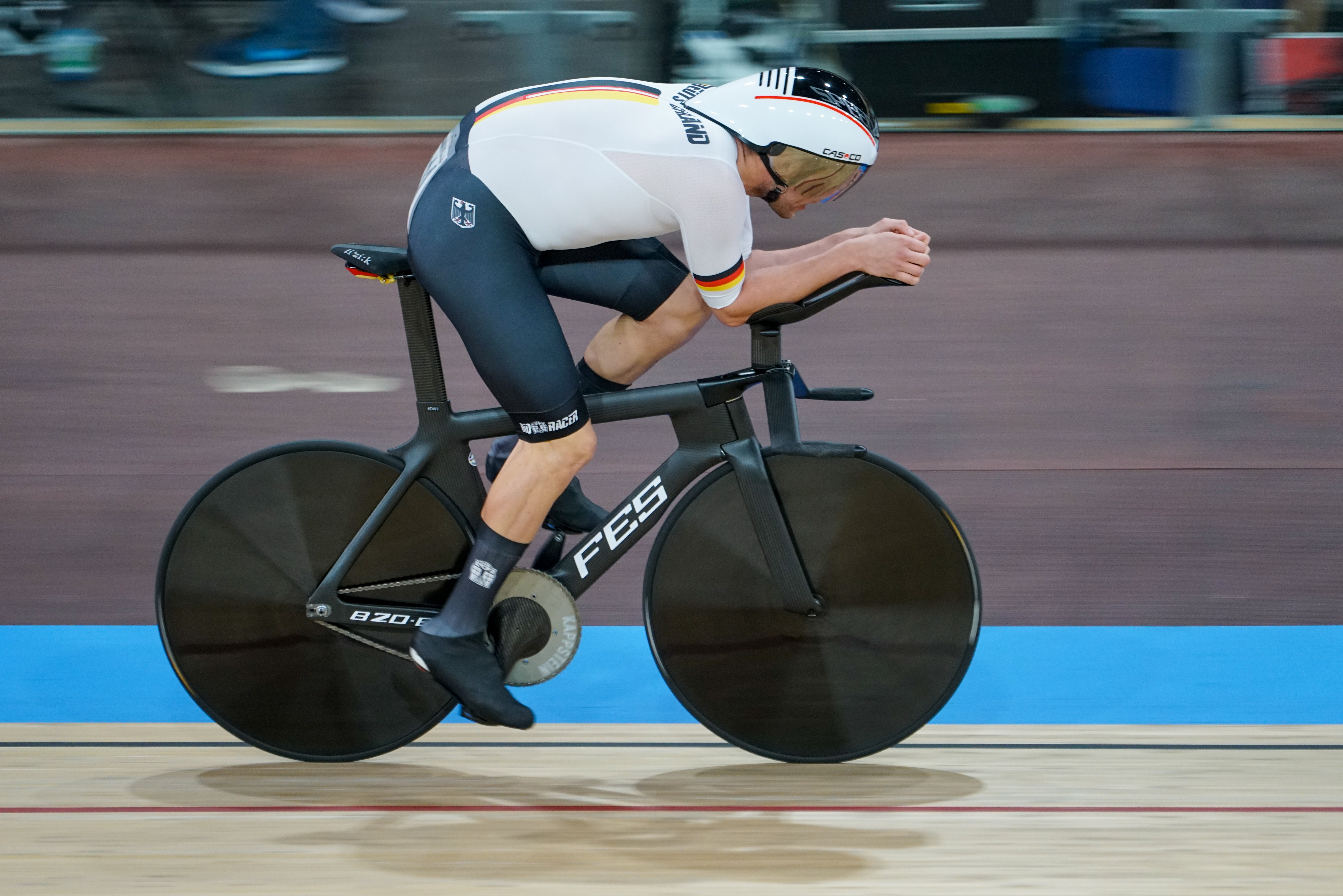 2020 UCI Track Cycling World Championships – Men's Individual Pursuit – Qualifying